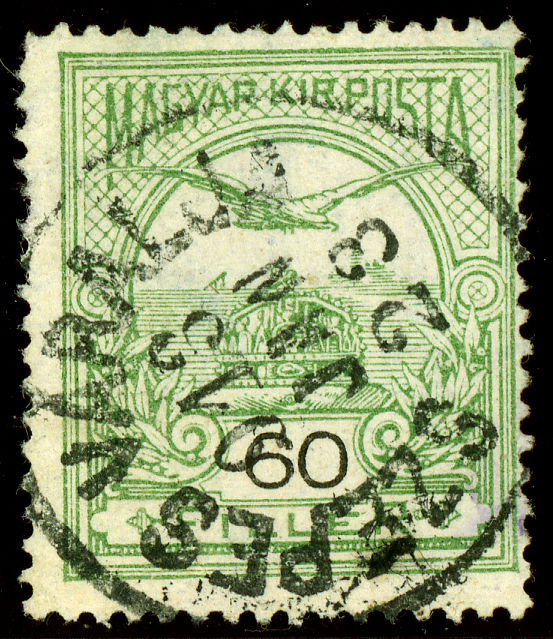 Szepesváralja - Hungarian cancellation in 1913 on 60 filler